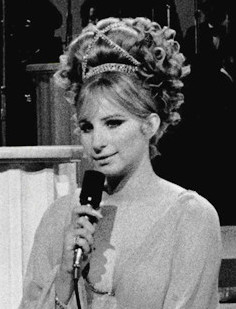 Photo of Barbra Streisand performing on The Ed Sullivan Show in 1969.